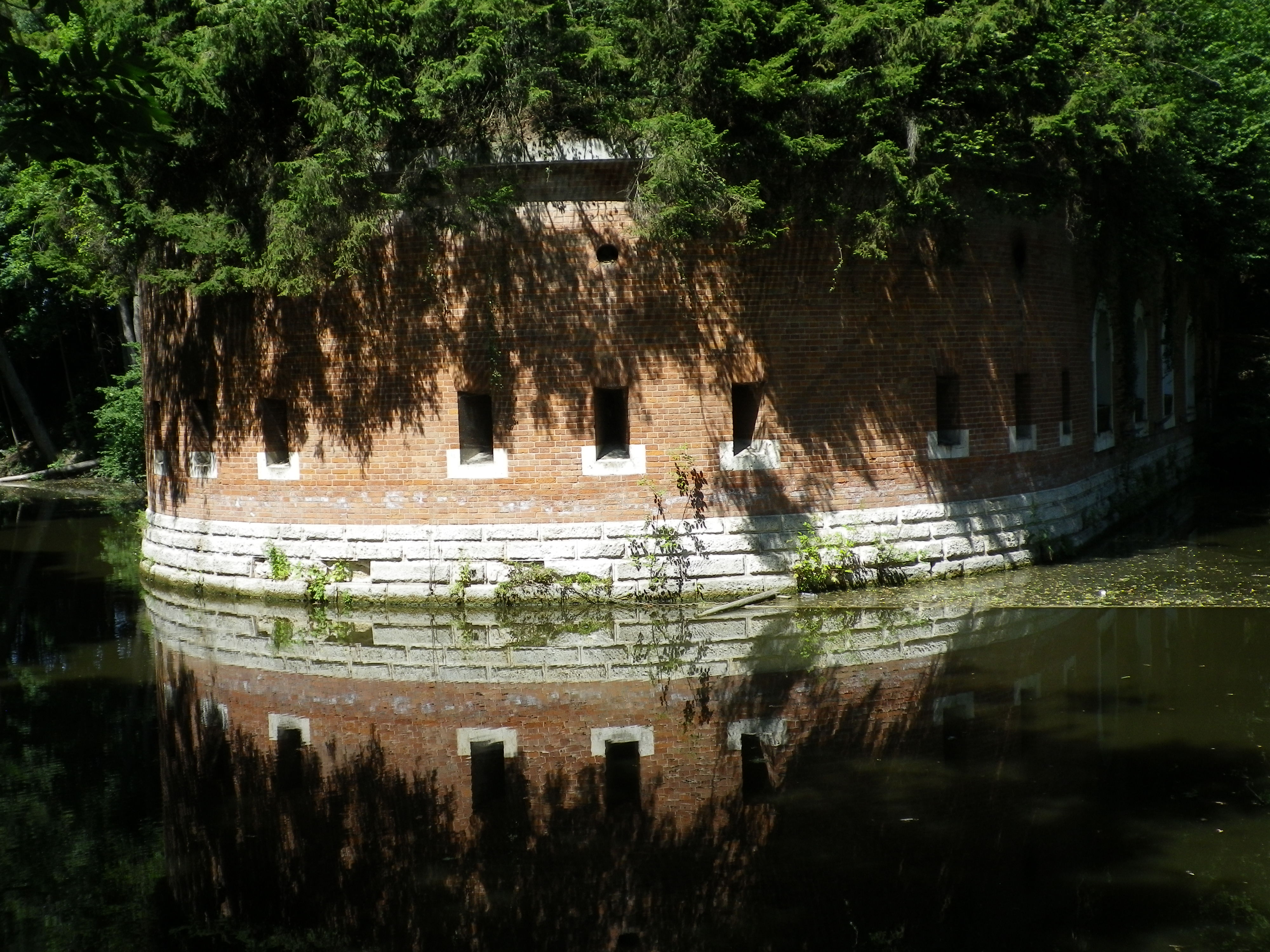 This is a photograph of an architectural monument.